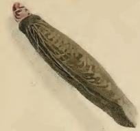 Stainton’s Natural History of the Tineina (1855–1873): Coleophora obscenella larval case